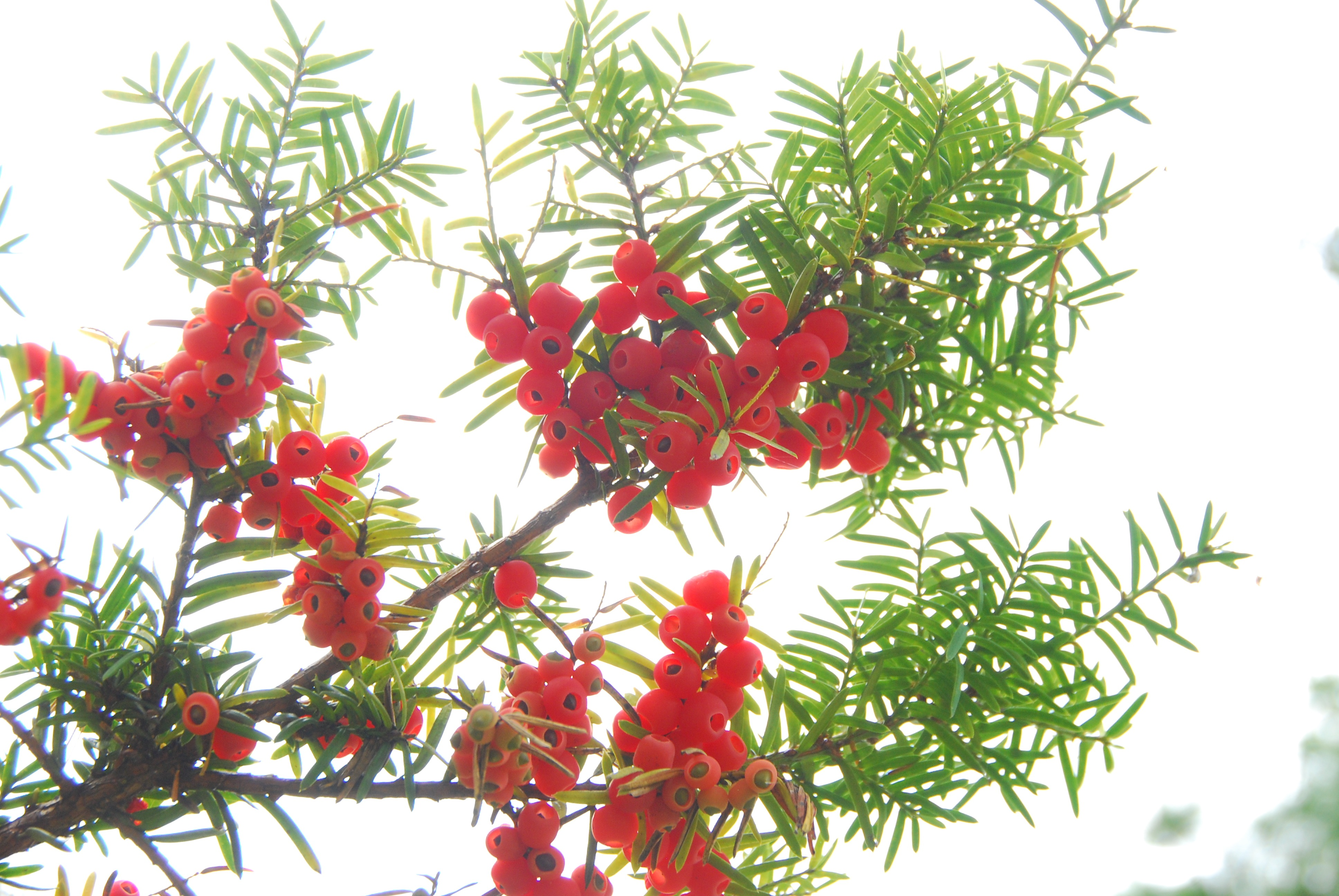 Taxus cuspidata Nikon D80 + AF-S VR Zoom-Nikkor 24-120mm f/3.5-5.6G IF-ED